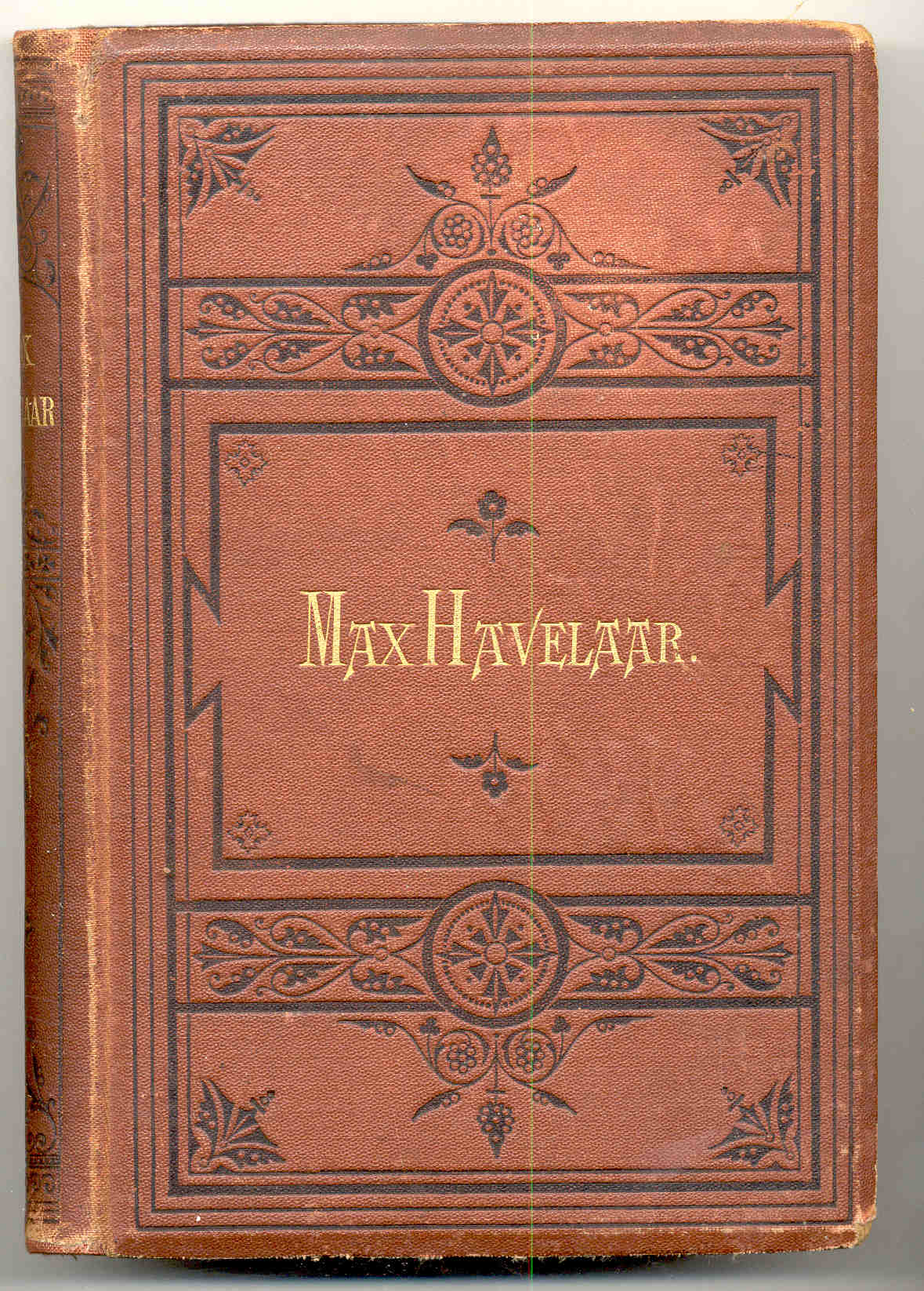 cover 4th edition Max Havelaar by Multatuli, G.L.Funke, Amsterdam, 1875